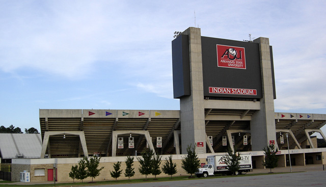 ASU Stadium is home of Jonesboro's ASU Red Wolves. Indian Stadium seen from the west side. ASU Stadium, formerly known as Indian Stadium.